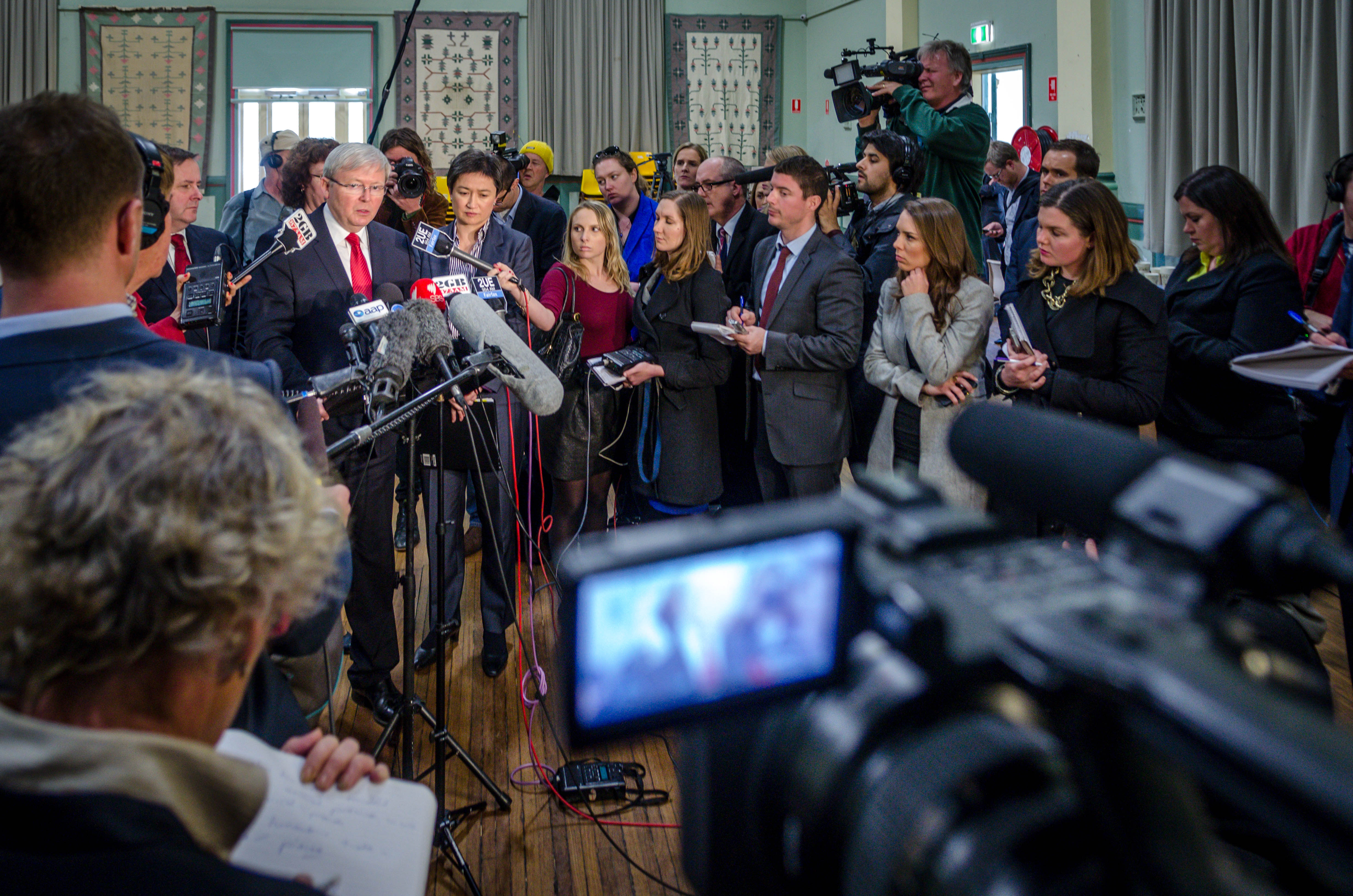 Kevin Rudd Press Conference in Balmain Town Hall